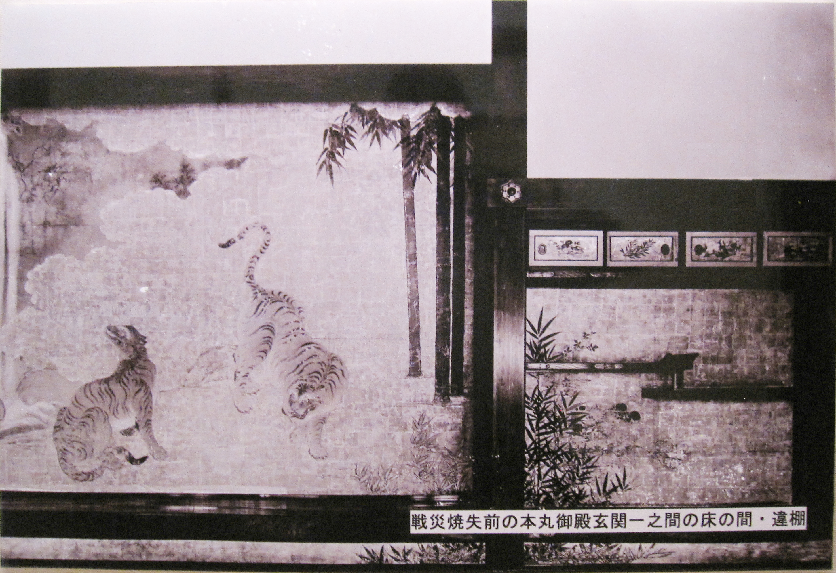 Photograph showing the small Lily, Tree Peony, Chrysanthemum, Morning Glory sliding doors within the Honmaru Palace of Nagoya Castle.